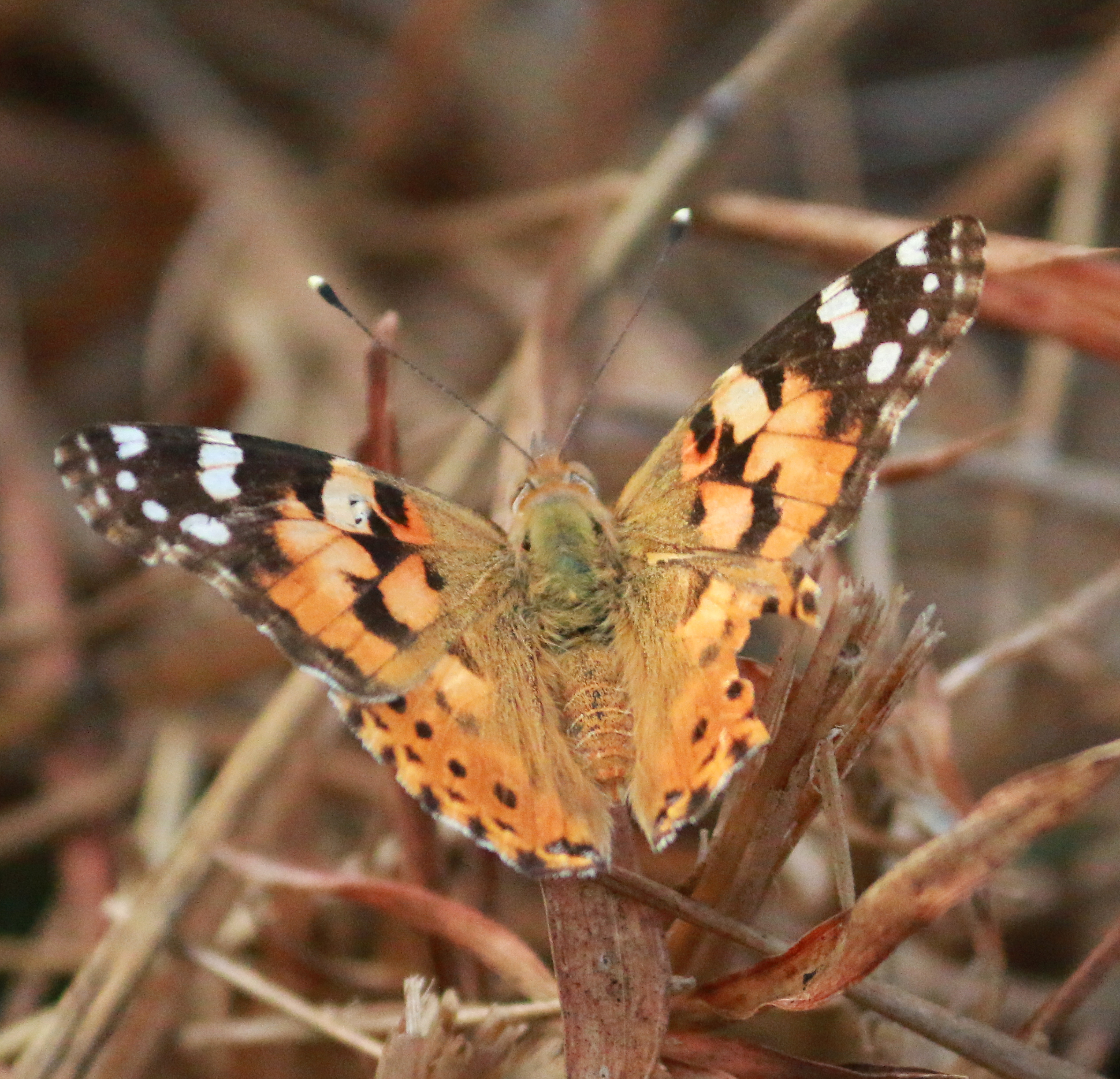 Painted lady